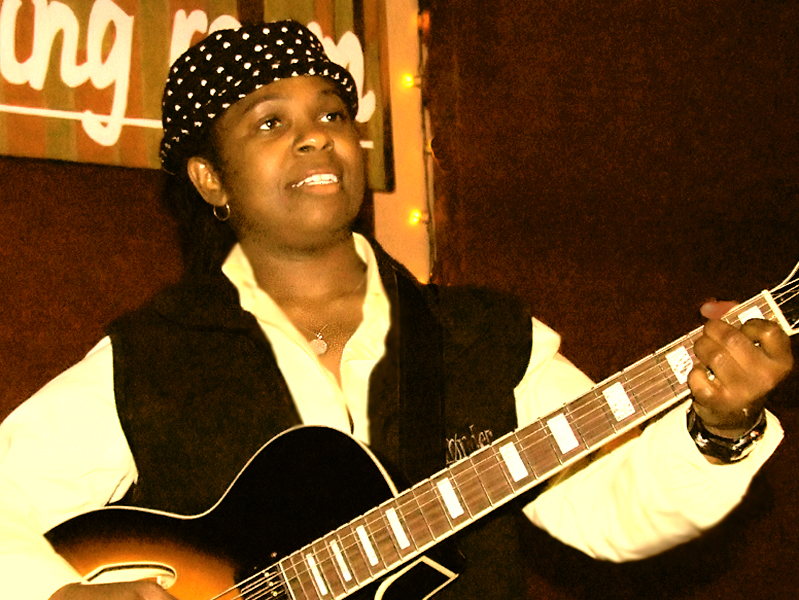 Ruthie Foster photographed at The Living Room in NYC on 1-24-07 by Anthony Pepitone